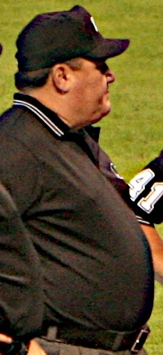 MLB umpire Larry Poncino - Colorado Rockies at Houston Astros - June 30, 2007.